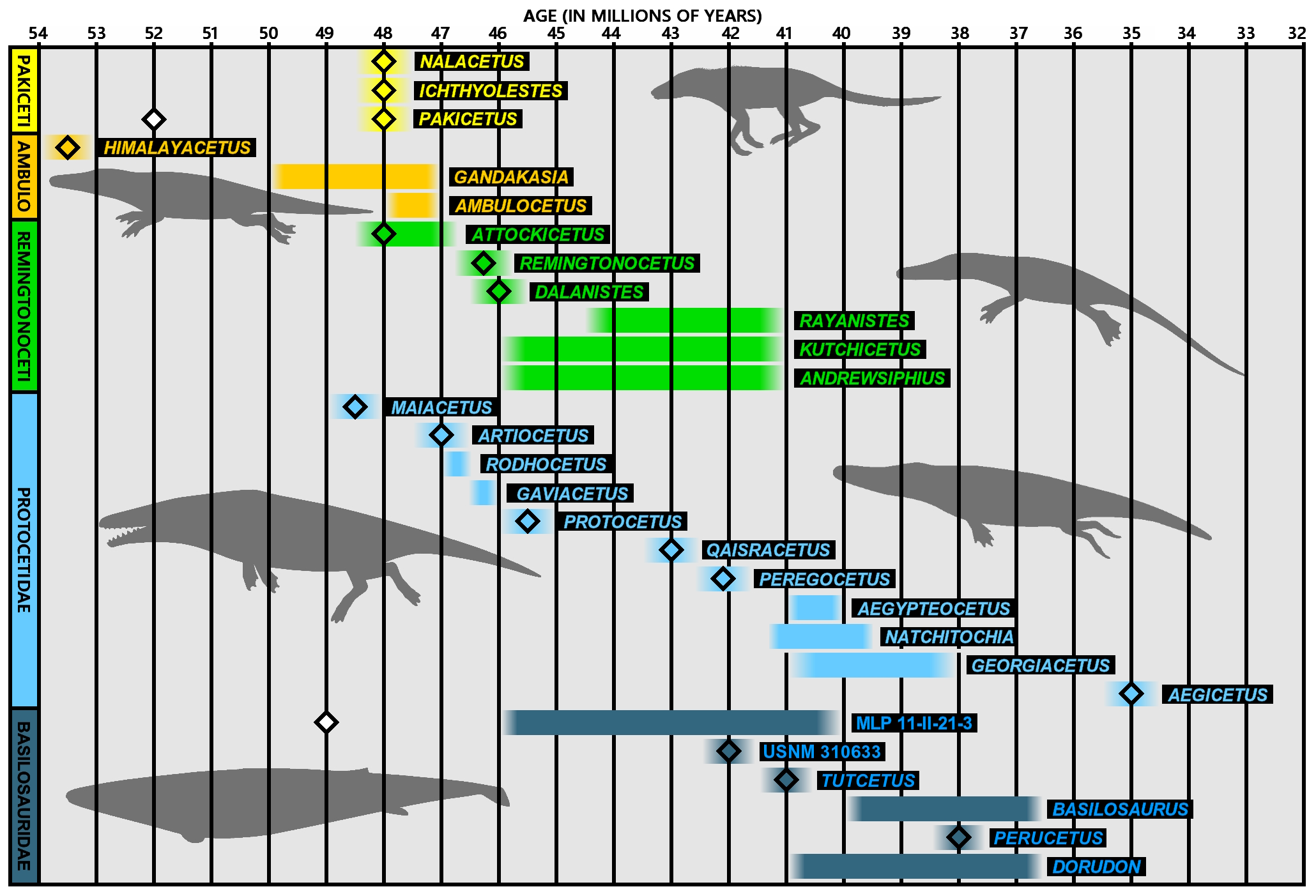 Diagram showing age of different types of archaeocetes. Most Archaeocetes (many of which are regarded as transitional forms between landliving ungulates and modern whales) seems to have lived contemporaneously, although scientists sometimes have came up with different ages of some genera. The lines show how old the fossils are dated to be. When it is 2 thinner lines beside each other, it means that different studies have given different results. A. Pakicetus, dated to the Thanetian/Lutetian[1], alternatively Ypresian. B/C. Ambulocetus. Age of the fossils is debatable. It is found in the same formation as Pakicetus (Kuldana Formation), and are believed to be 2 million years younger (Carroll, 1997). If Pakicetus is abort 50 million years old, then Ambulocetus could be about 48 Million years. Some sources gives a date of 49 million years[2]. D. Rhodocetus. Dates of about 47-49 million years (P. D. Gingerich et.al. 1994). E. Himalayacetus from Ypresian[3] F. Dalanistes, dated to Ypresian-Batonian[4]. G. Kutchicetus. Dated to the Ypresian-Lutetian[5] H. Remingtonoetus (fond in India, dated to the Lutetian[6]). I. Georgiacetus, dated to be abort 40 million years old (early Lutetian)[7] J/K. Protocetus. Usually dated to the Midde Lutetian (45 million years), but some fossil evidence from Mokattam Formation point to an age towards the early Lutetian, according to Benton. L. Dorudon. Dates back to Lutetian-Bartonian[8] M. Basilosaurus/Zeuglodon. Early Bartonian[9]. References ↑ on Pakicetus. ↑ English Wikipedia/Ambulocetus ↑ on Himalayacetus. ↑ on Dalanistes. ↑ on Kutchicetus ↑ on Remingtonocetus. ↑ . ↑ Haines, Tim & Chambers, Paul. (2006) The Complete Guide to Prehistoric Life. Canada: Firefly Books Ltd. ↑ on Basilosaurus. External links [1].